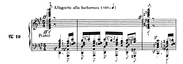 Reproduced sheet through Finale program.